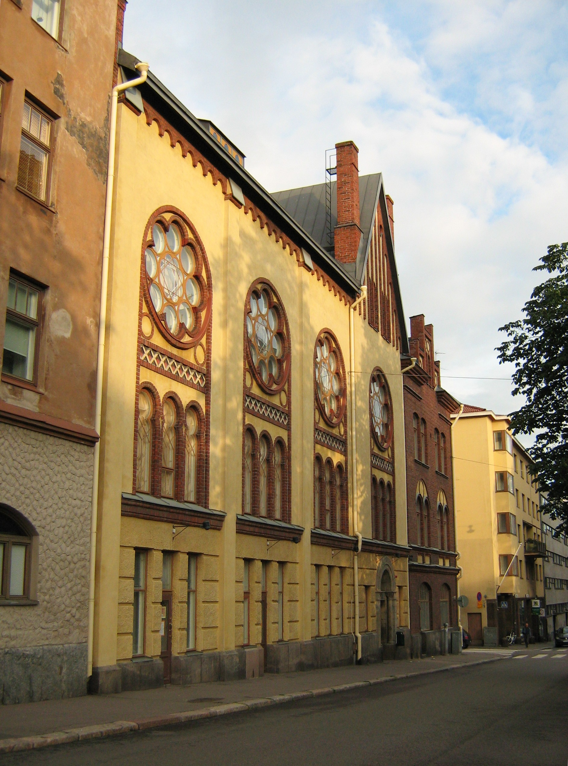 A building in Punavuori, Helsinki, Finland.